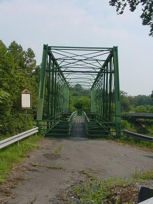 Historic Whipple Truss over the Cacapon River at Capon Lake.